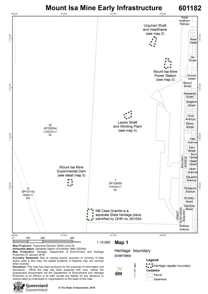 601182 - Mount Isa Mine Early Infrastructure - Map 1 (2016)